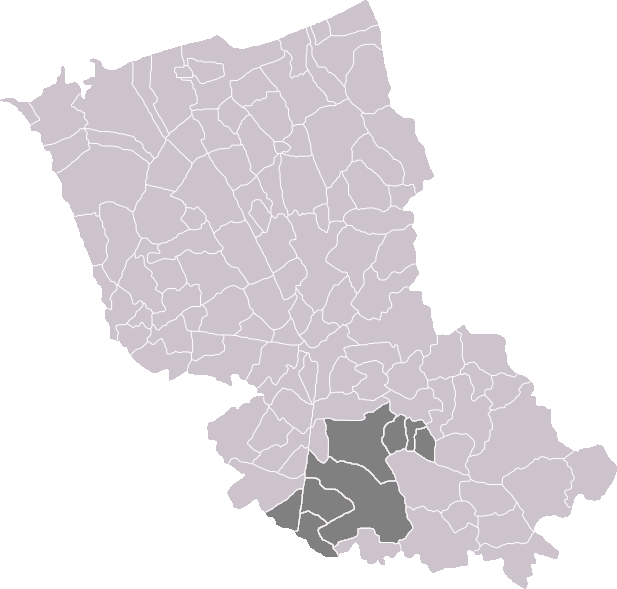 Carte de localisation du canton d'Hazebrouck-Sud / Map of the canton of Hazebrouck-Sud